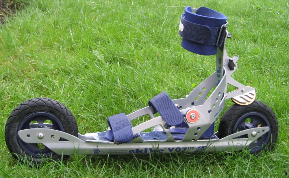 Cross skate from Skike